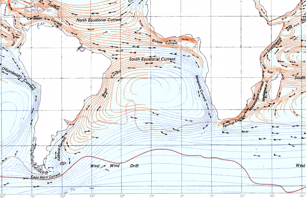 Re-colored (for readability by color blind persons) version of Ocean Currents and Sea Ice from Atlas of World Maps, United States Army Service Forces, Army Specialized Training Division. Army Service Forces Manual M-101 (1943). South Atlantic